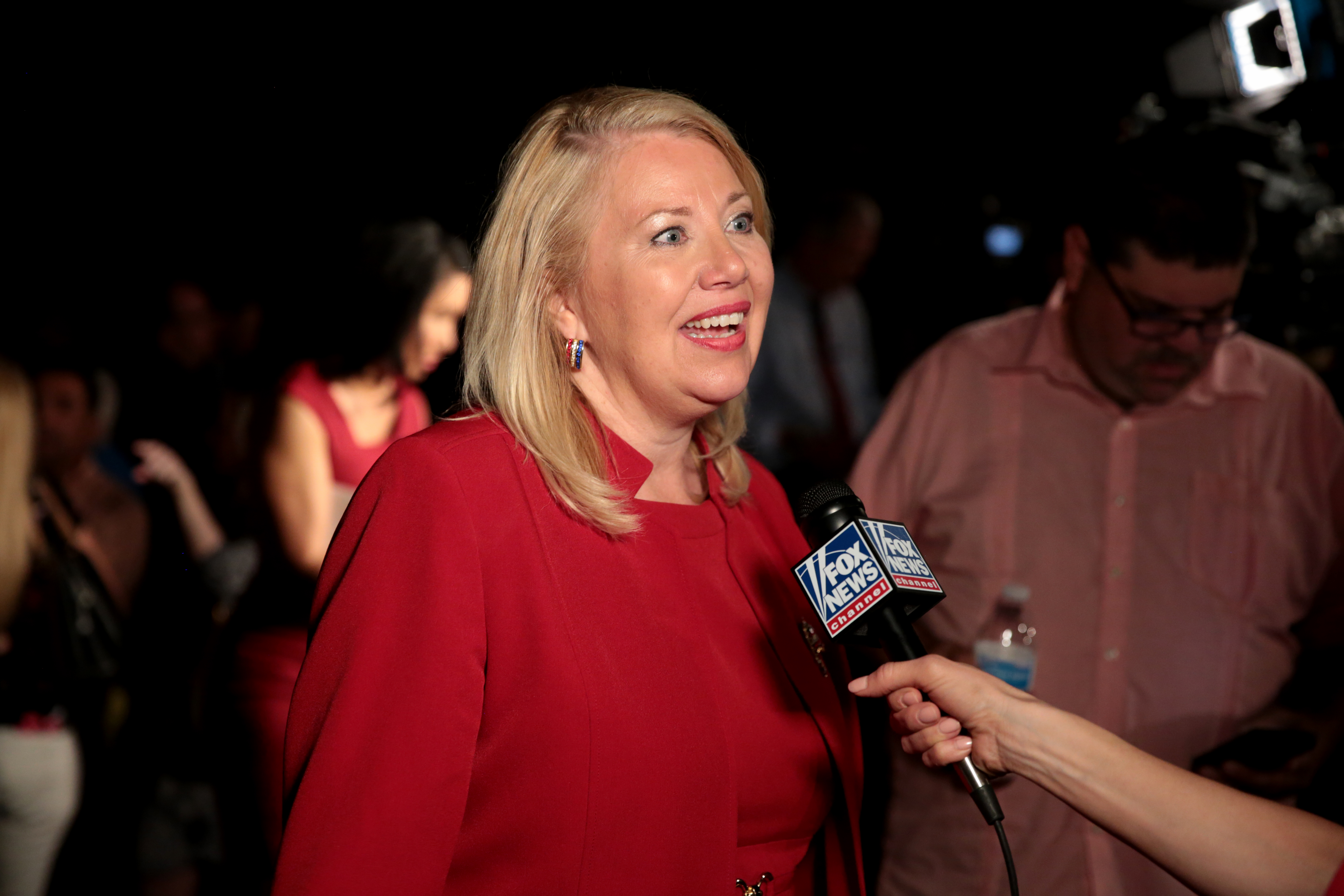 U.S. Congresswoman-elect Debbie Lesko speaking at her campaign election night watch party at a home in Peoria, Arizona.